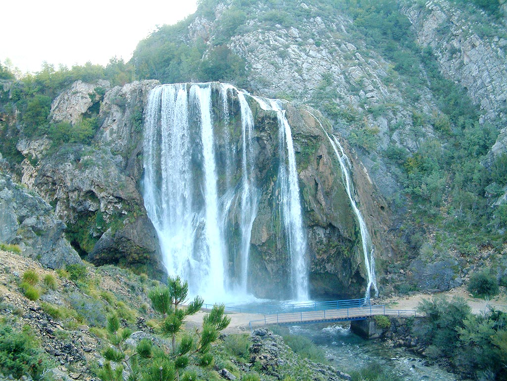 Krcic (Krčić) waterfall near the city of Knin, Croatia. K. Korlević (Korlevic)